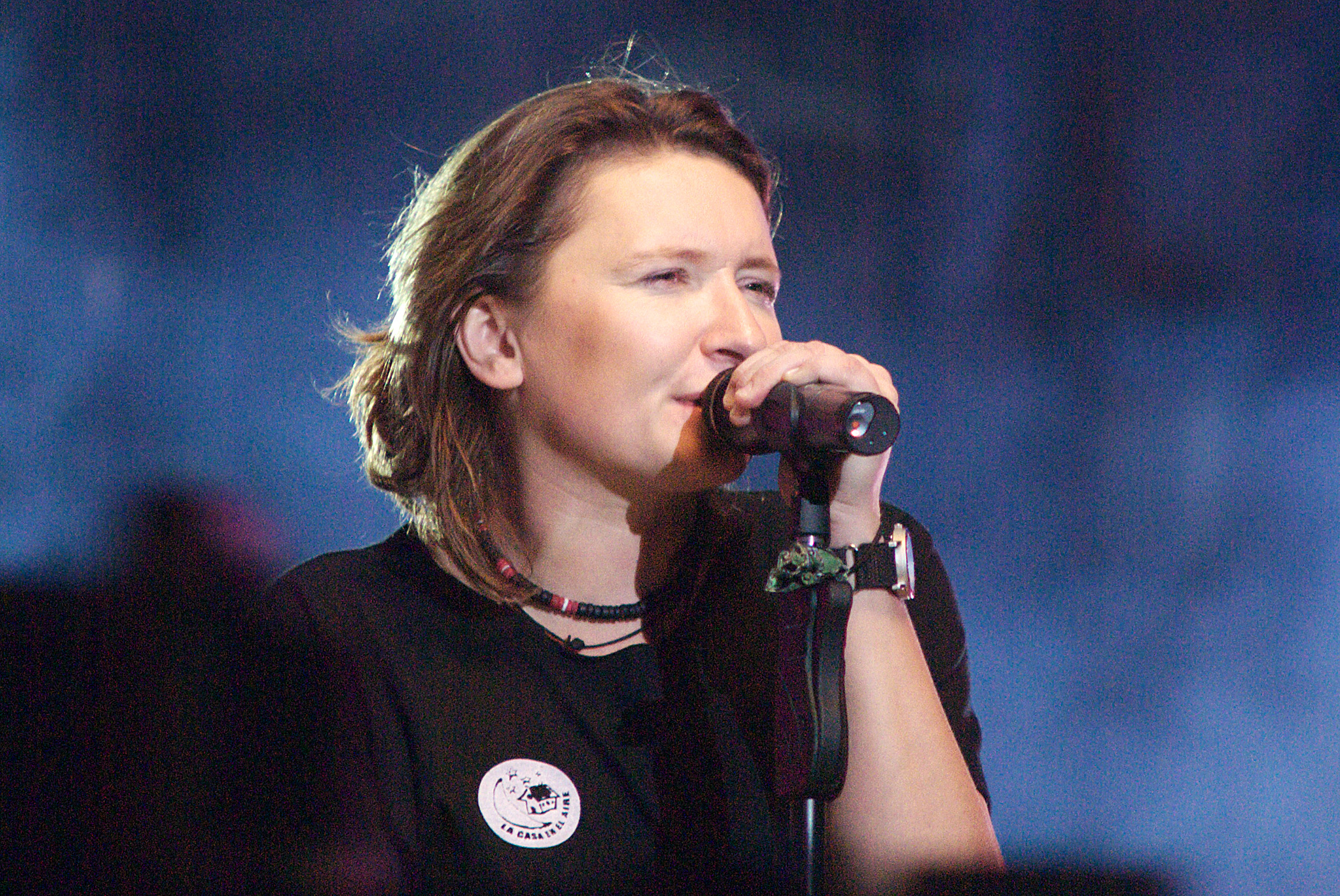 Diana Arbenina